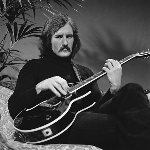 Jan Akkerman in AVRO's TopPop (Dutch television show) in 1974